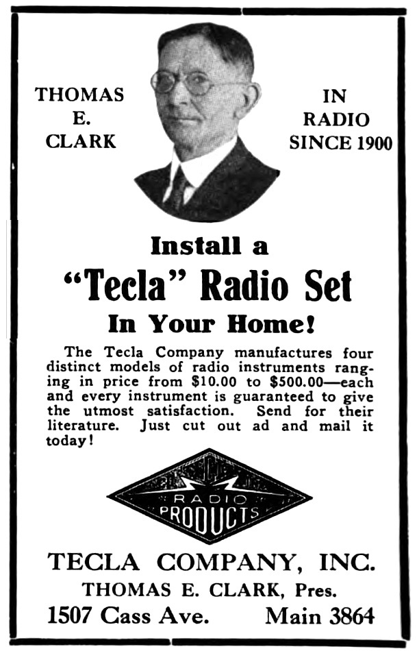 Thomas E. Clark's Tecla Company, located in Detroit, Michigan, sold electrical supplies, including radio equipment